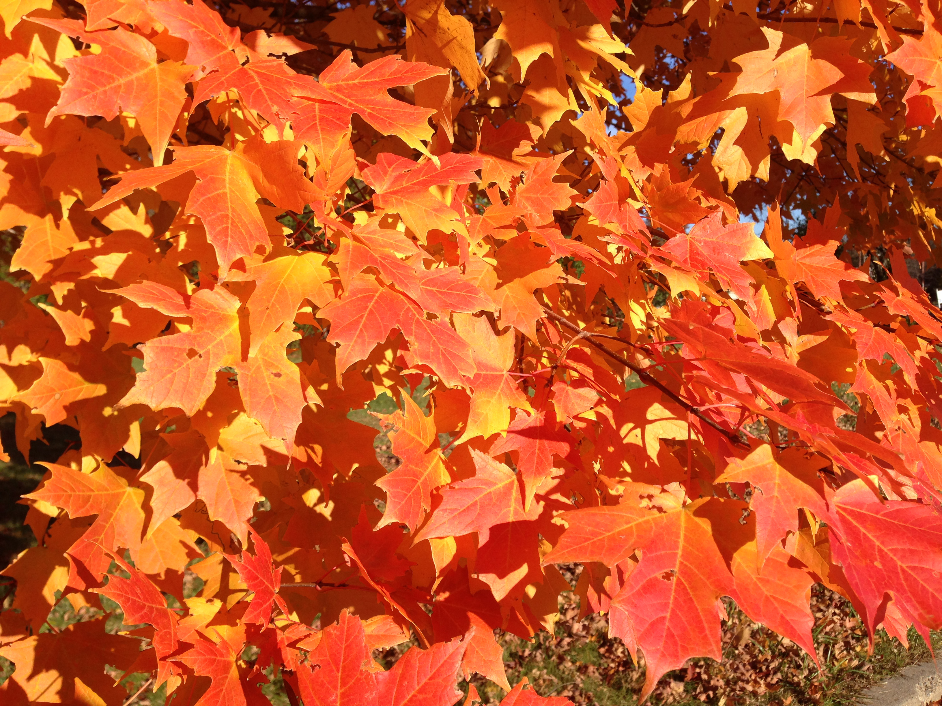 Sugar Maple foliage during autumn along Parkway Avenue in Ewing, New Jersey